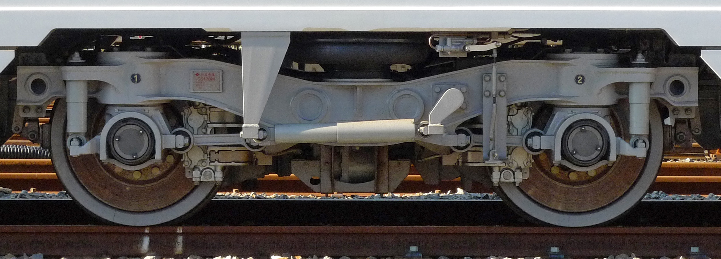 Keisei AE(2nd model) Truck SS170M in Sougo-sandou Rail yard.